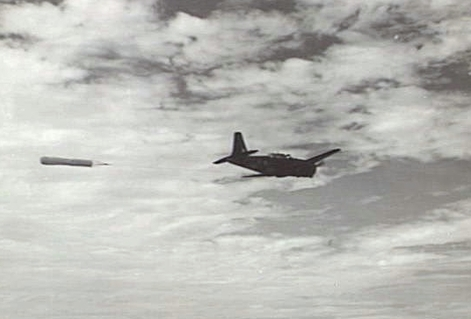 MAREEBA AERODROME, NORTH QUEENSLAND, AUSTRALIA. 1944-07-21. A VULTEE "VENGEANCE" AIRCRAFT OF NO. 5 SQUADRON, ROYAL AUSTRALIAN AIR FORCE TOWING A DROGUE TARGET DURING AN ARMY AIR CO-OPERATION EXERCISE WITH TROOPS OF THE 2/4TH INFANTRY BATTALION, 19TH INFANTRY BRIGADE.